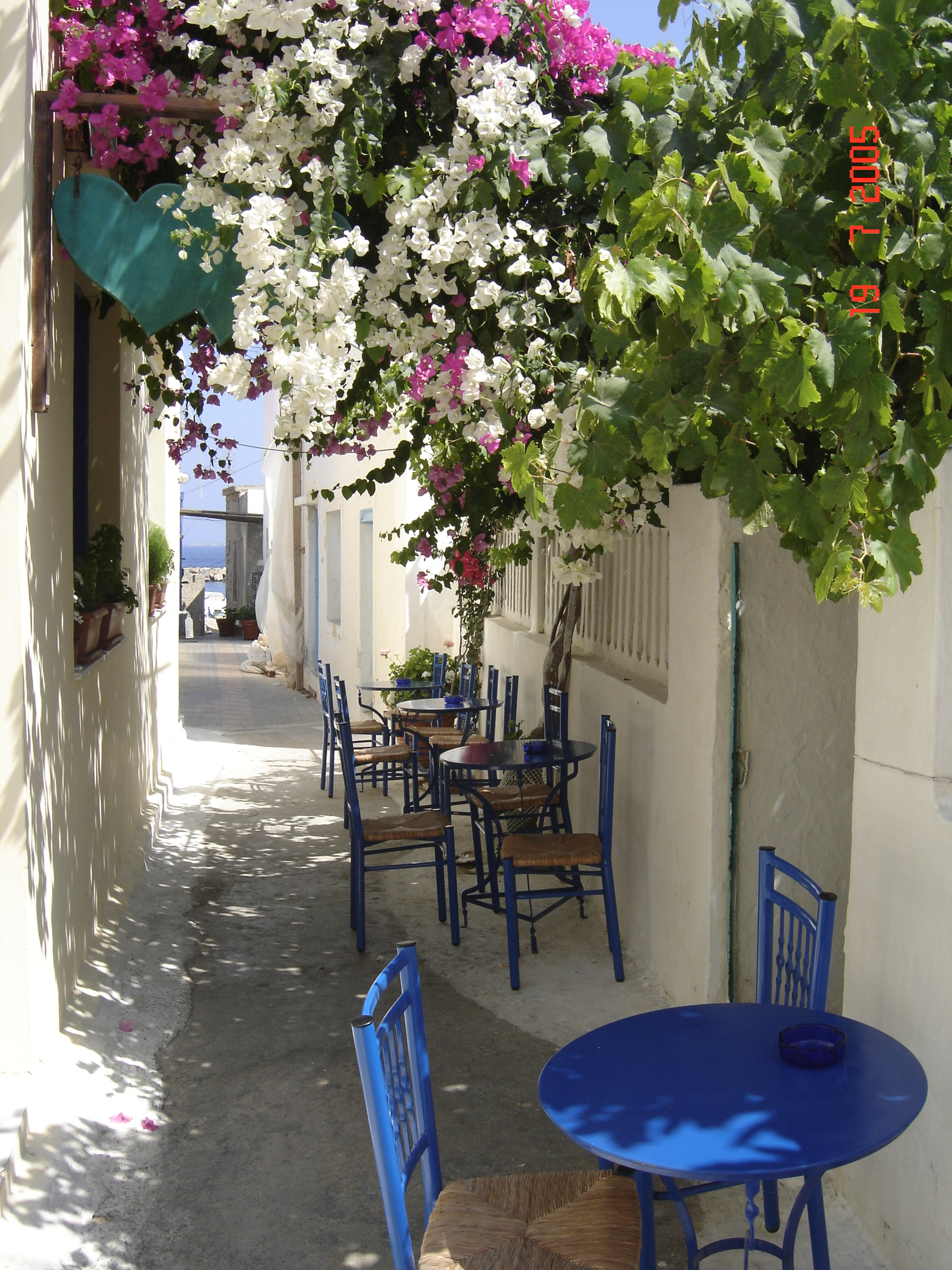 Kasos, greek Island This is a photography of Natura 2000 protected area with ID GR4210001